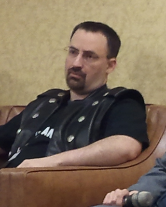 Jim Butcher at Norwestcon 34.